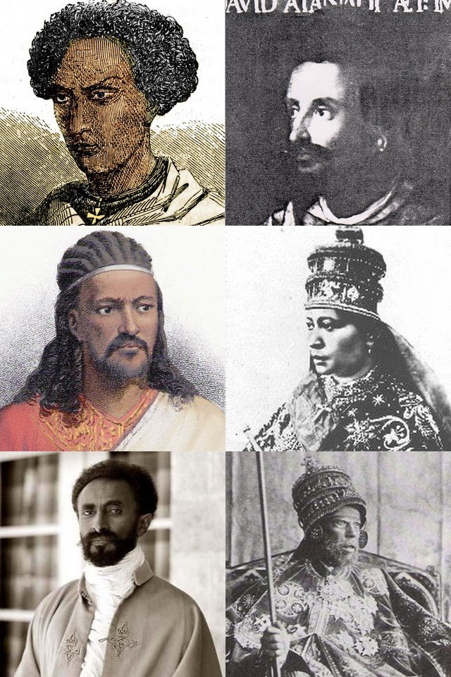 Collage of prominent Amhara people.